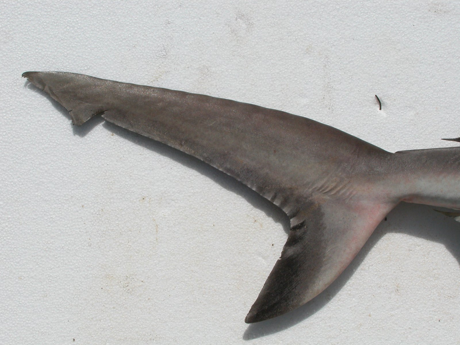 Carcharhinus amblyrhynchos. Detail of tail. Locality: near Récif Le Sournois, off Nouméa, New Caledonia. Total Length 1,111 mm, Weight 8,800 grams, Date 24-05-2004.